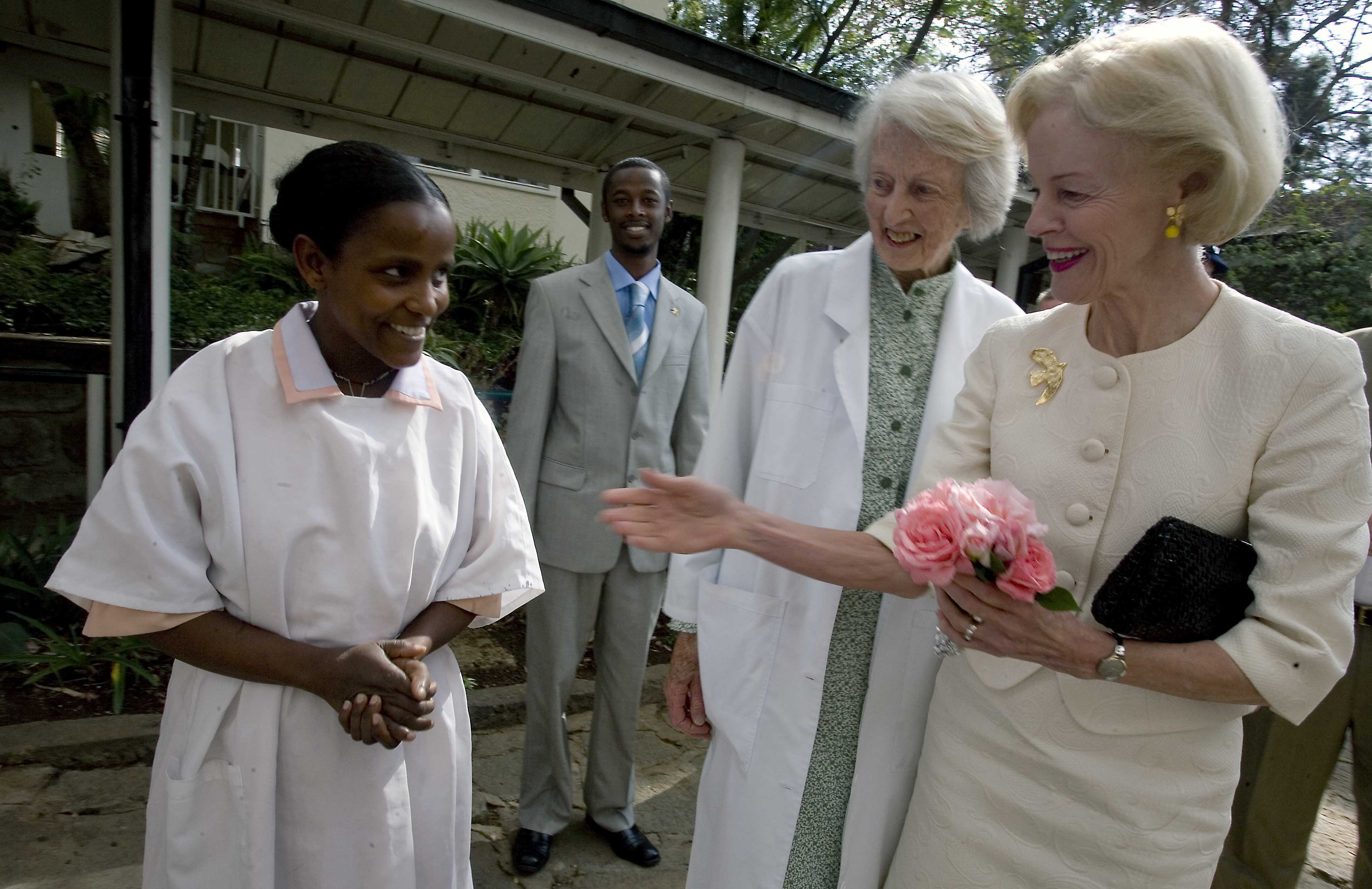 Quentin Bryce (R), the Governor General of Australia, accepts flowers from a patient at the Hamlin Fistula Hospital, that is supported by AusAid, watched on my Dr Hamlin, the founder, (C) in Addis Ababa, Ethiopia on the 27th March, 2009. This is the first ever official visit of an Australian head of State to Southern and Eastern Africa and aims to highlight the increased support the Australian Government is to give to aid programs throughout the region. Ethiopia 2009. Photo: Kate Holt / AusAID